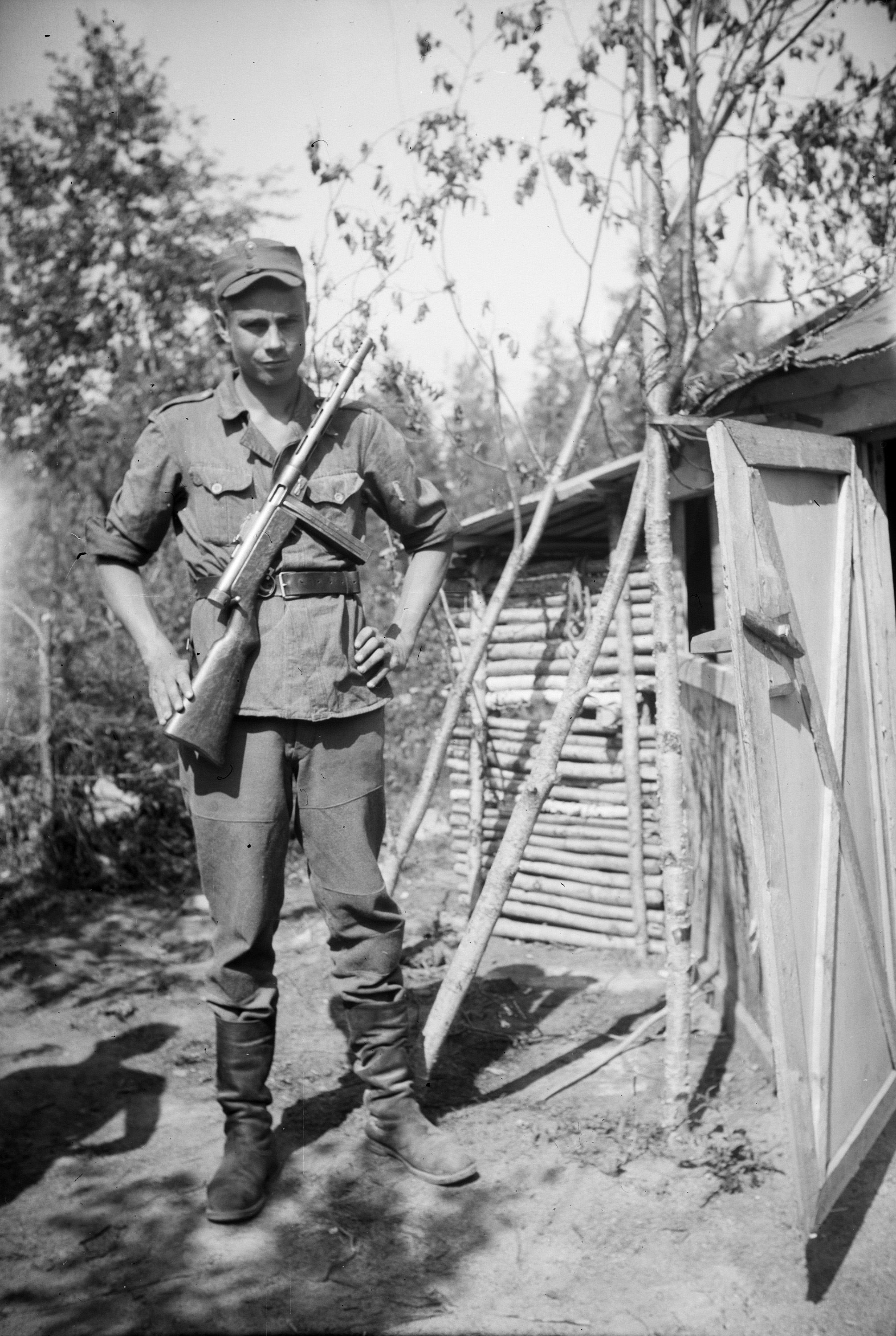 Mauno Koivisto during the Continuation War. Photographer, time and location unknown. --- Presidentti Mauno Koiviston yksityisarkistoa säilytetään Kansallisarkistossa. Lähes 32 hyllymetrin laajuinen kokoelma sisältää runsaasti tietoa koko hänen elämänsä ajalta. Hyvä ilmentymä arkiston laaja-alaisuudesta on siihen sisältyvä 22 kotelon ja kolmen laatikon laajuinen valokuvakokoelma, joka sisältää kuvia ainakin vuosilta 1939-1998. Kuvien ottaja ja ajoitus on valitettavan usein epäselvä - kokoelmassa on niin ammattivalokuvaajien vedoksia kuin myös presidentti Koiviston mahdollisesti itse ottamia kuvia. Tähän nyt julkaistuun kokoelmaan on valittu kuvia hänen nuoruusvuosiltaan. Arkiston käyttöön vaaditaan Kansallisarkiston pääjohtajan lupa. Lisätietoa arkistosta löytyy Arkistojen Portista ( --- President Mauno Koivisto's private archive is preserved at the National Archives of Finland. The size of the collection is almost 32 shelf metres, containing a wide range of information regarding him and his life. A good example of the wide scope of the private archive can be seen in the collection of photographs contained within (25 containers in total). The collection contains photos at least from the years 1939 to 1998, and includes prints by professional photographers as well as photos possibly taken by president Koivisto himself. Sadly, the photographer, time and place are seldom mentioned. The collection presented here contains photos from his youth. Access to the archive requires written permission from the Director General of the National Archives.